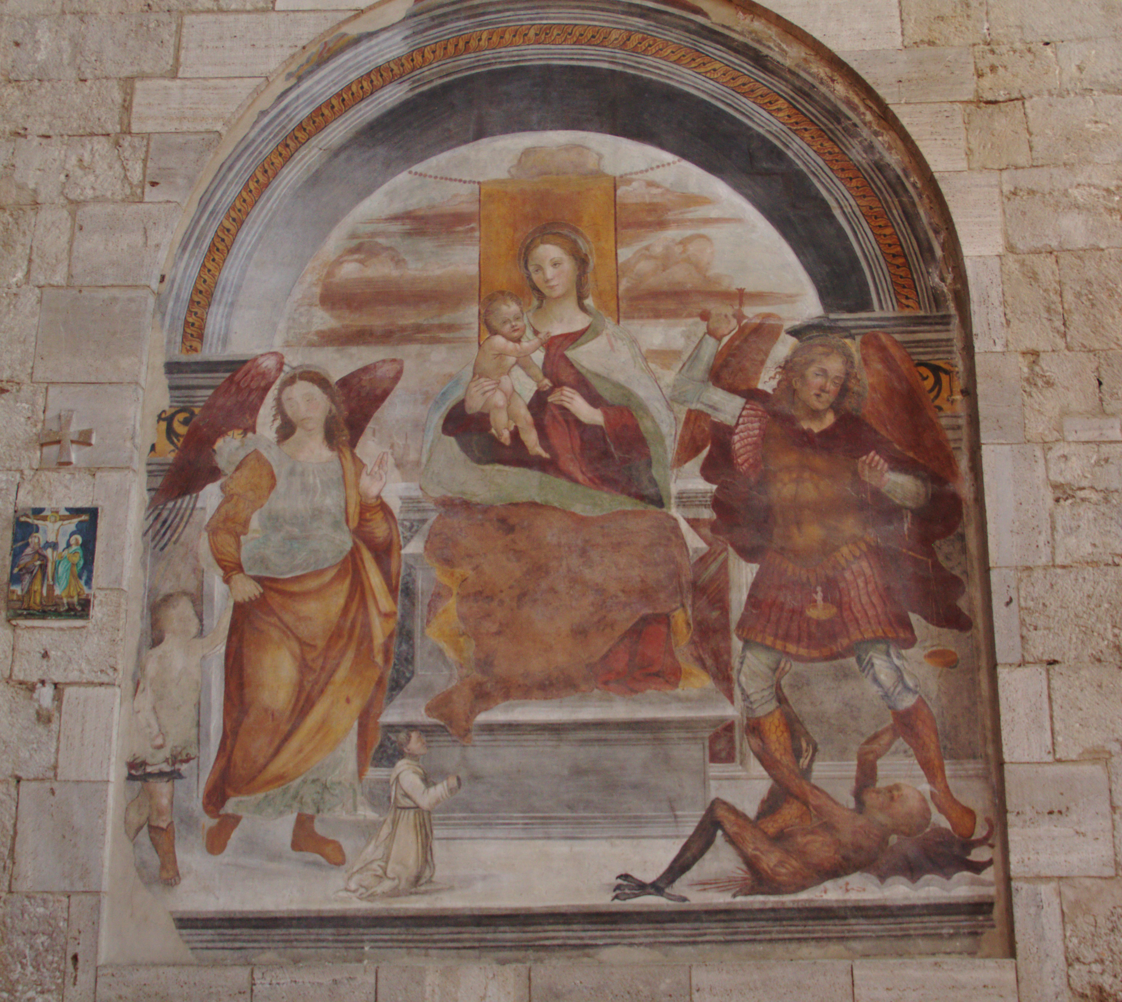 Fresco in basilica Agathe, Asciano, Italy